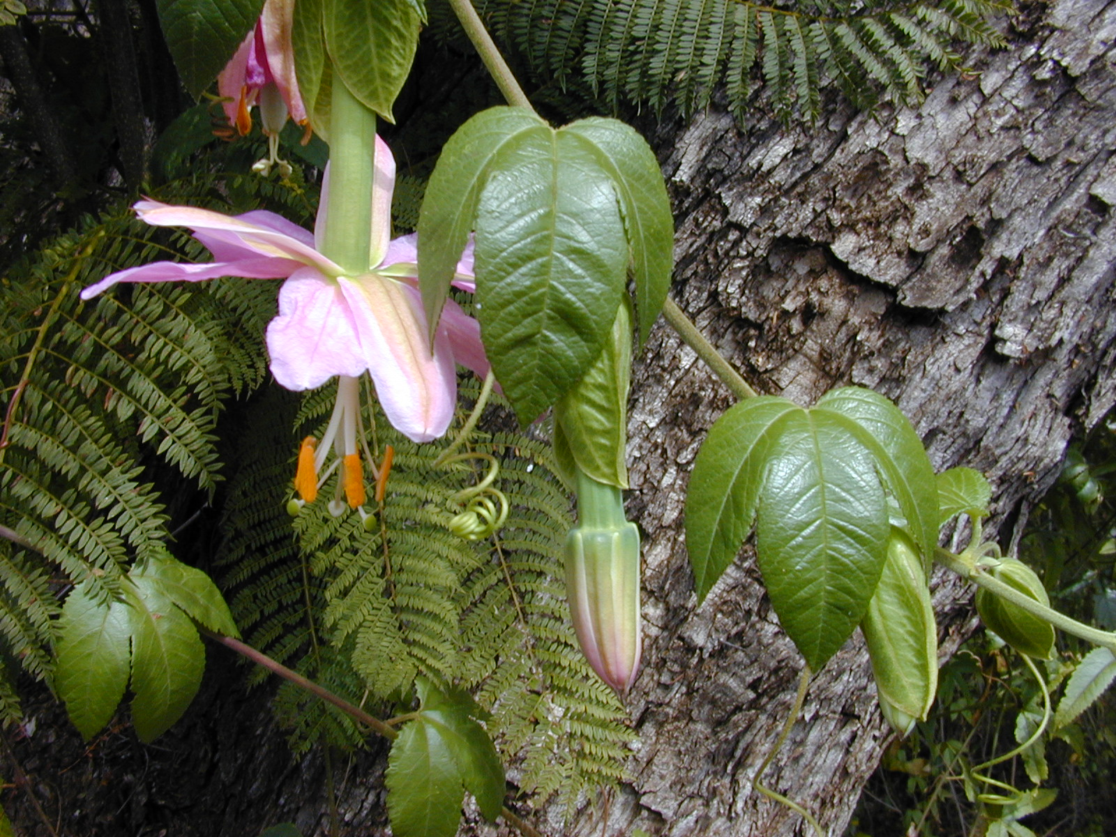 Passiflora tarminiana (flowers). Location: Maui, Kula